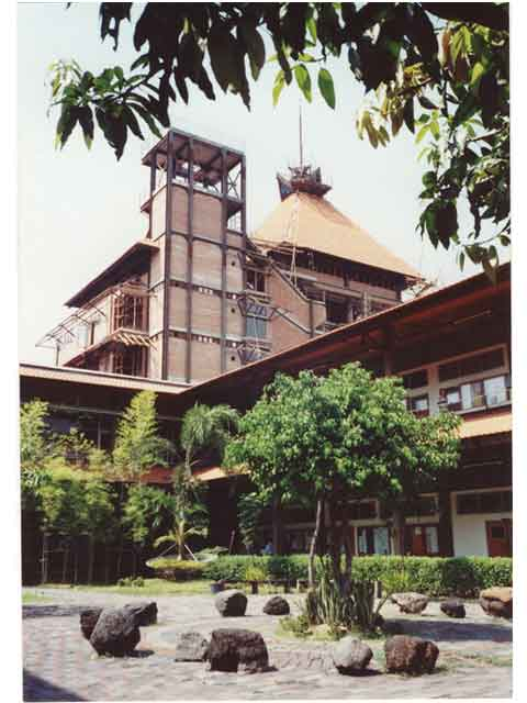 The second campus of Widya Mandala Catholic University Surabaya, Indonesia